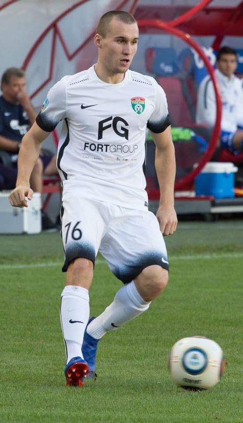 Pavel Kireyenko playing for FC Tosno against FC Dynamo Moscow.